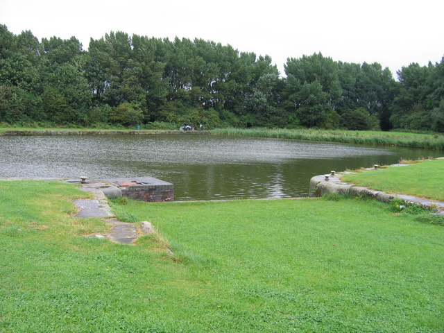 Widnes Dock Adjacent to the entrance to the St Helens Canal at Spike Island, on the east side of Widnes, there was once a wet dock with a separate entrance lock from the River Mersey. The dock has been closed for many a year but is still used for fishing. In the foreground is the infilled entrance lock chamber.